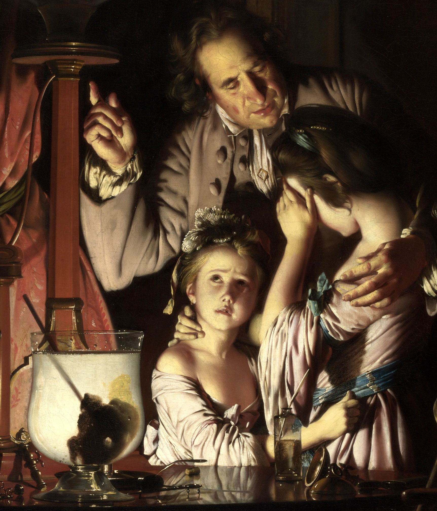 Joseph Wright of Derby. An Experiment on a Bird in the Air Pump. Detail. 1768. Oil on canvas. 182.9 x 243.9 cm. National Gallery, London, UK.